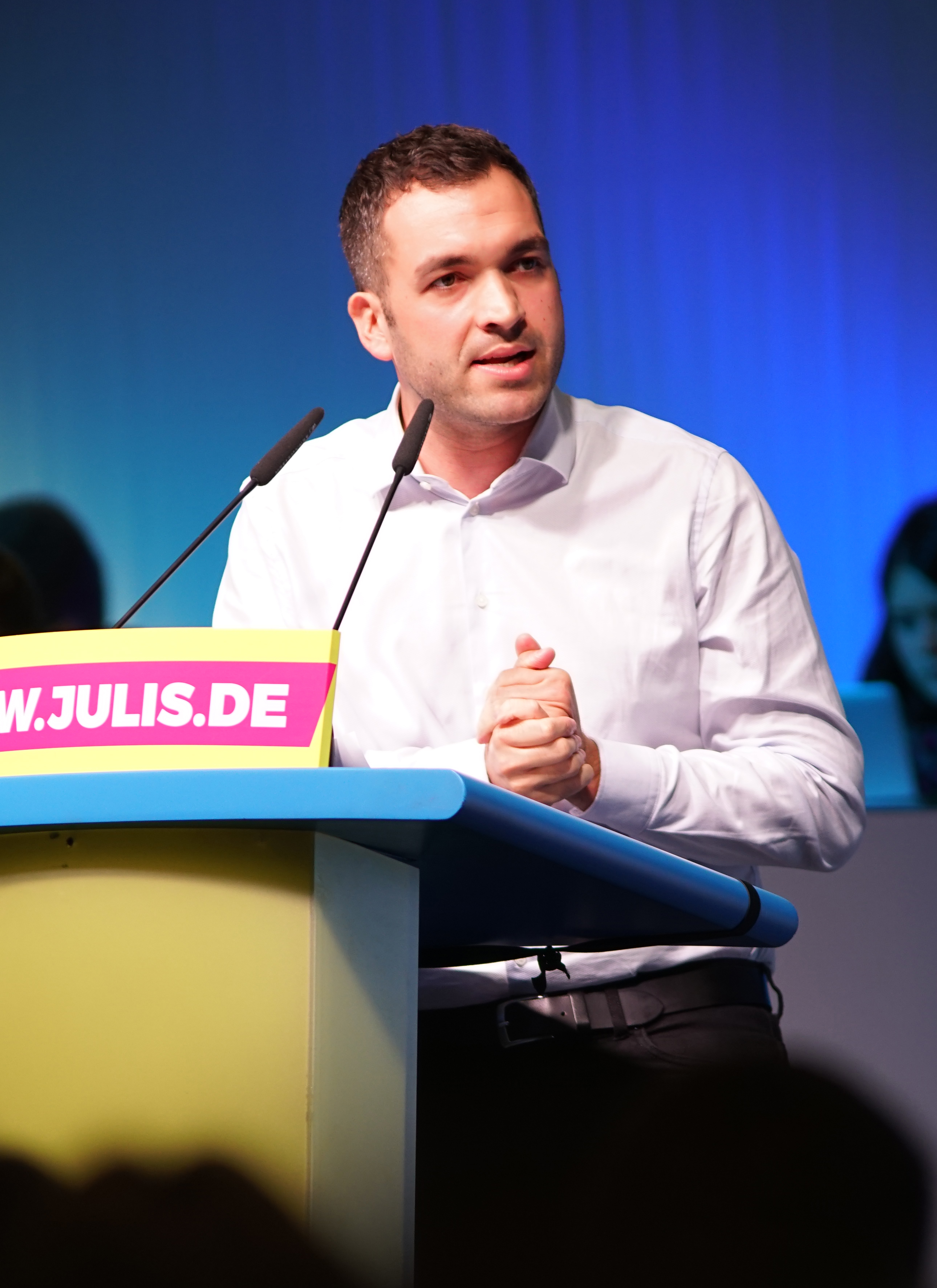 Konstantin Kuhle, Chairman of the Young Liberals Germany